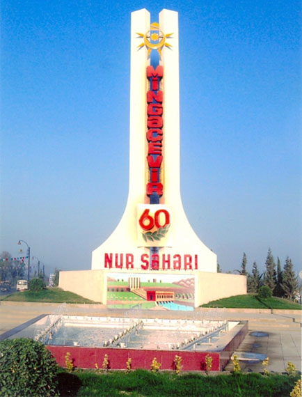 Mingachevir City. Azerbaijan